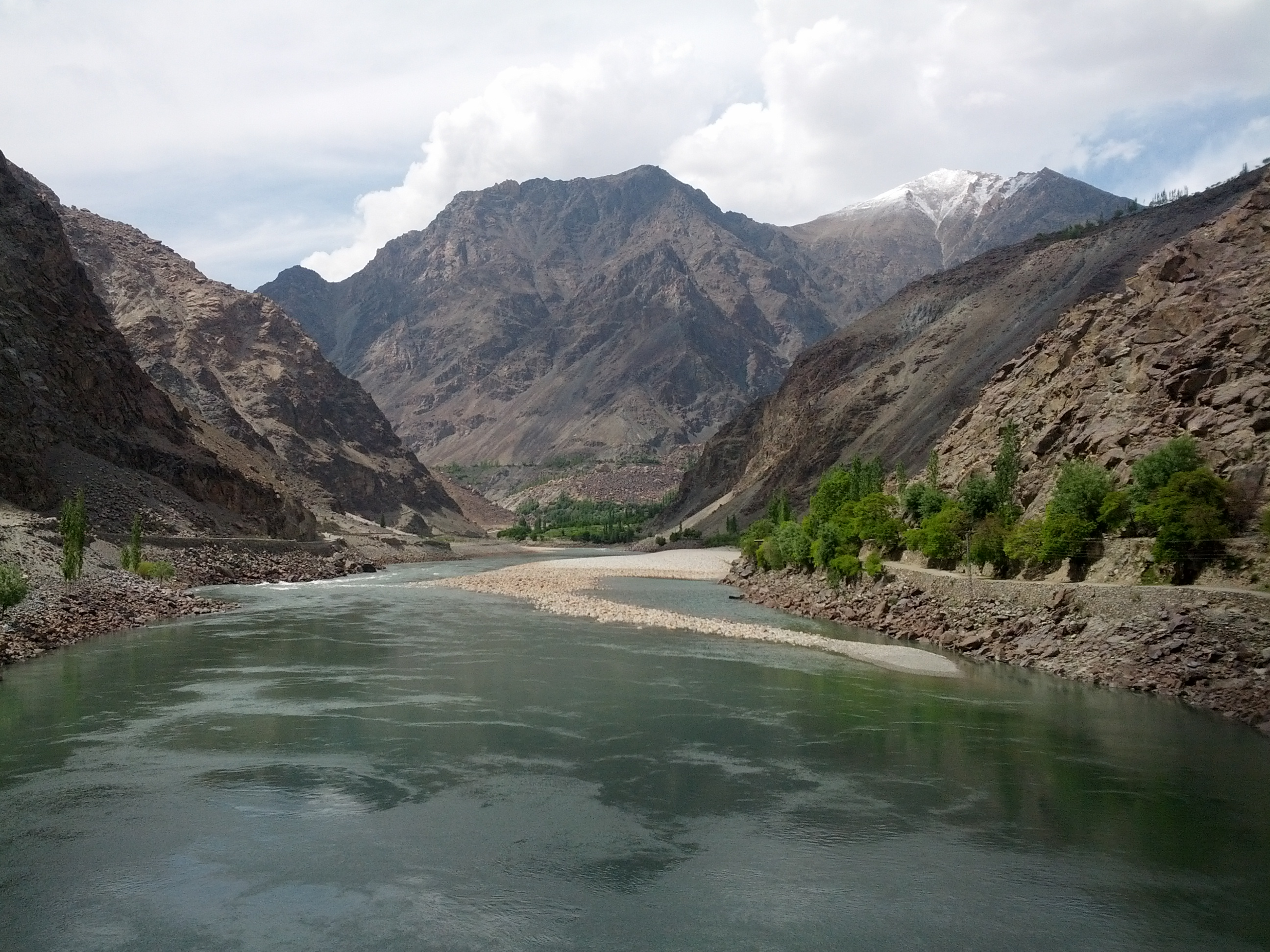 Shot taken at Tolti.district Kharmang